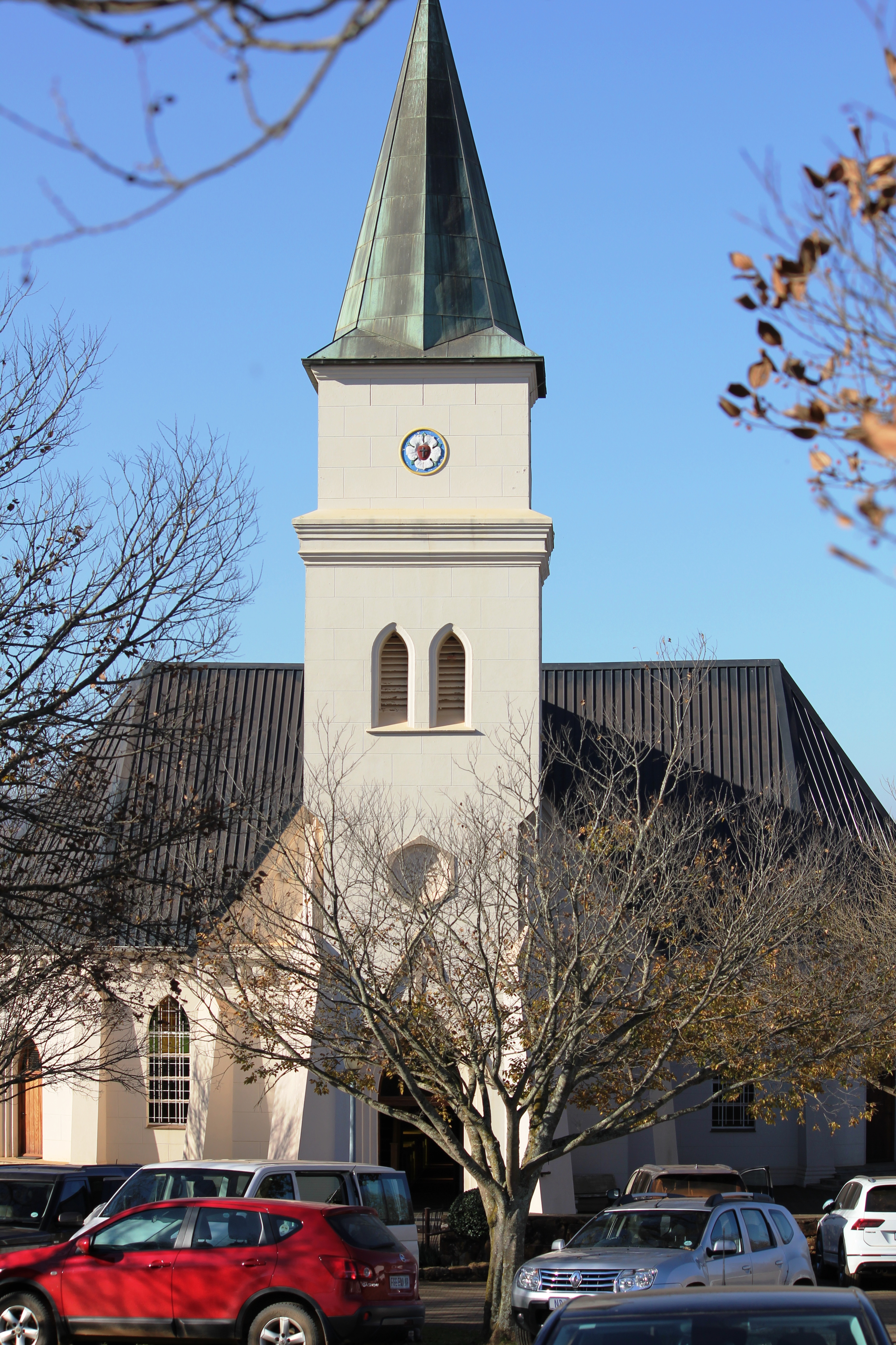 Entrance to the St Peter-Paul's Church in Lüneburg, northern KwaZulu-Natal